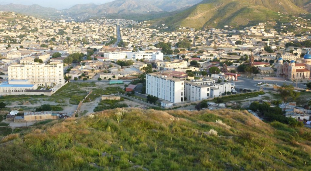 Keren Eitrea